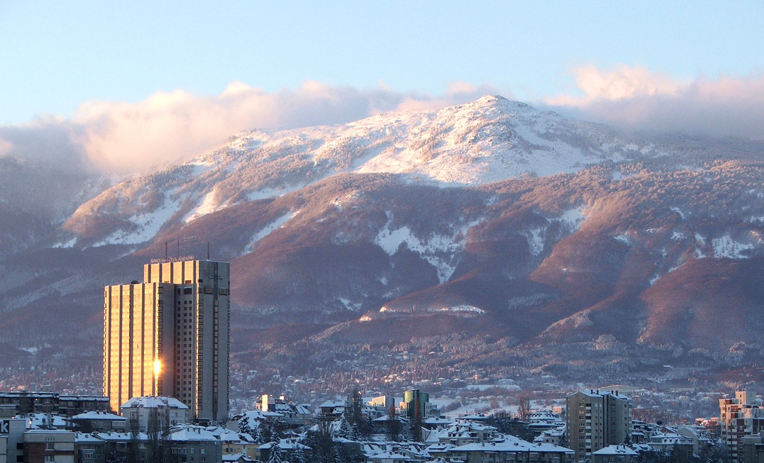 The skyline of Sofia, Bulgaria, with the Vitosha mountain rising in the background.